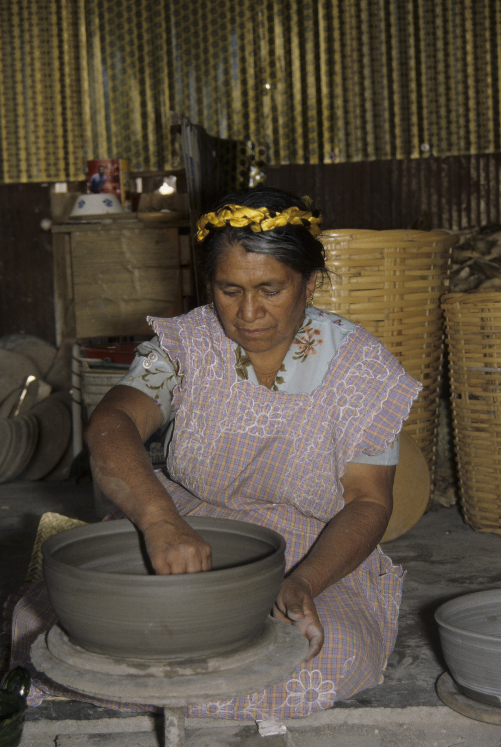 Tomasa, wife of Martin Mario Enrique Lopez , Santa Maria Atzompa, Oaxaca, Mexico